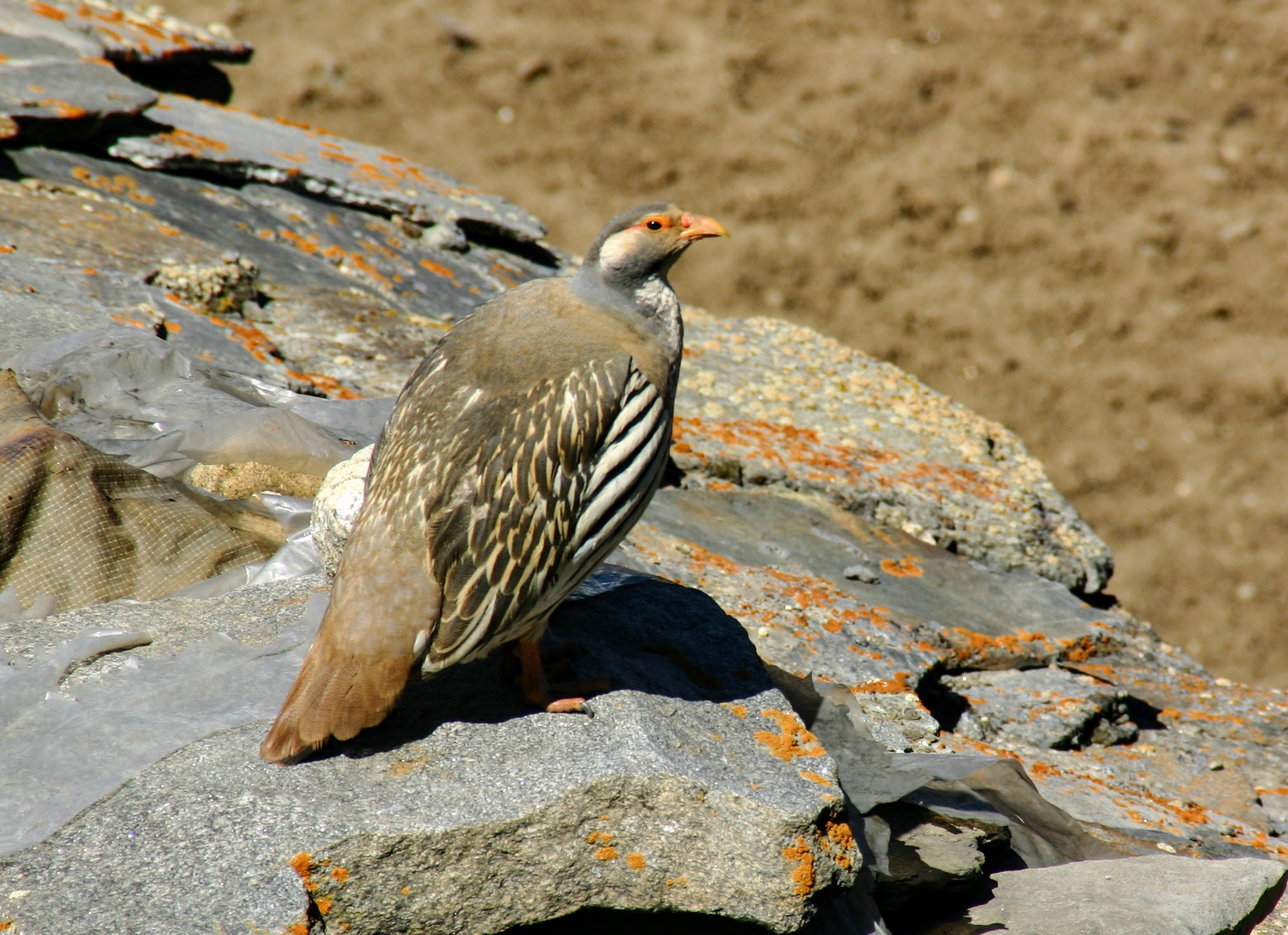 Tetraogallus tibetanus in the Sagarmatha National Park, Nepal